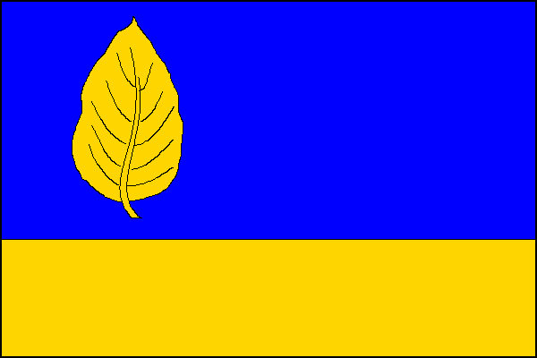 Municipal flag of Bukovina nad Labem village, Pardubice District, Czech Republic.